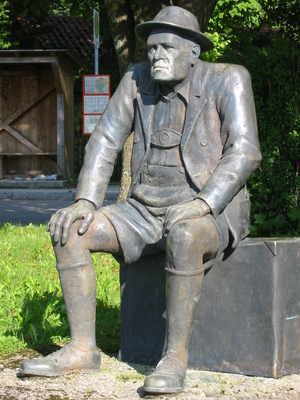 Oskar Maria Graf, monument of the Bavarian writer and dissident in Aufkirchen, sculpted by Max Wagner